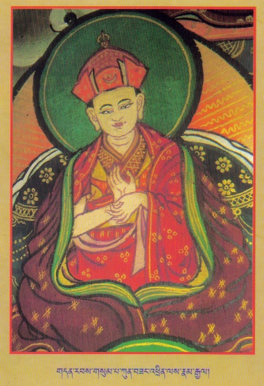 The Third Gangteng, Kunzang Trinle Namgyel b.1727 - d.1758